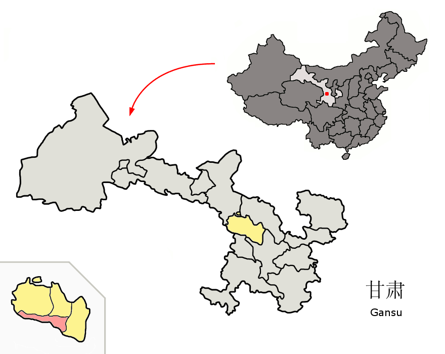 Location of Lanzhou City Districts (pink) within Lanzhou Prefecture (yellow) and Gansu province of China Map drawn in september 2007 using various sources, mainly : Gansu province administrative regions GIS data: 1:1M, County level, 1990 Gansu Counties map from